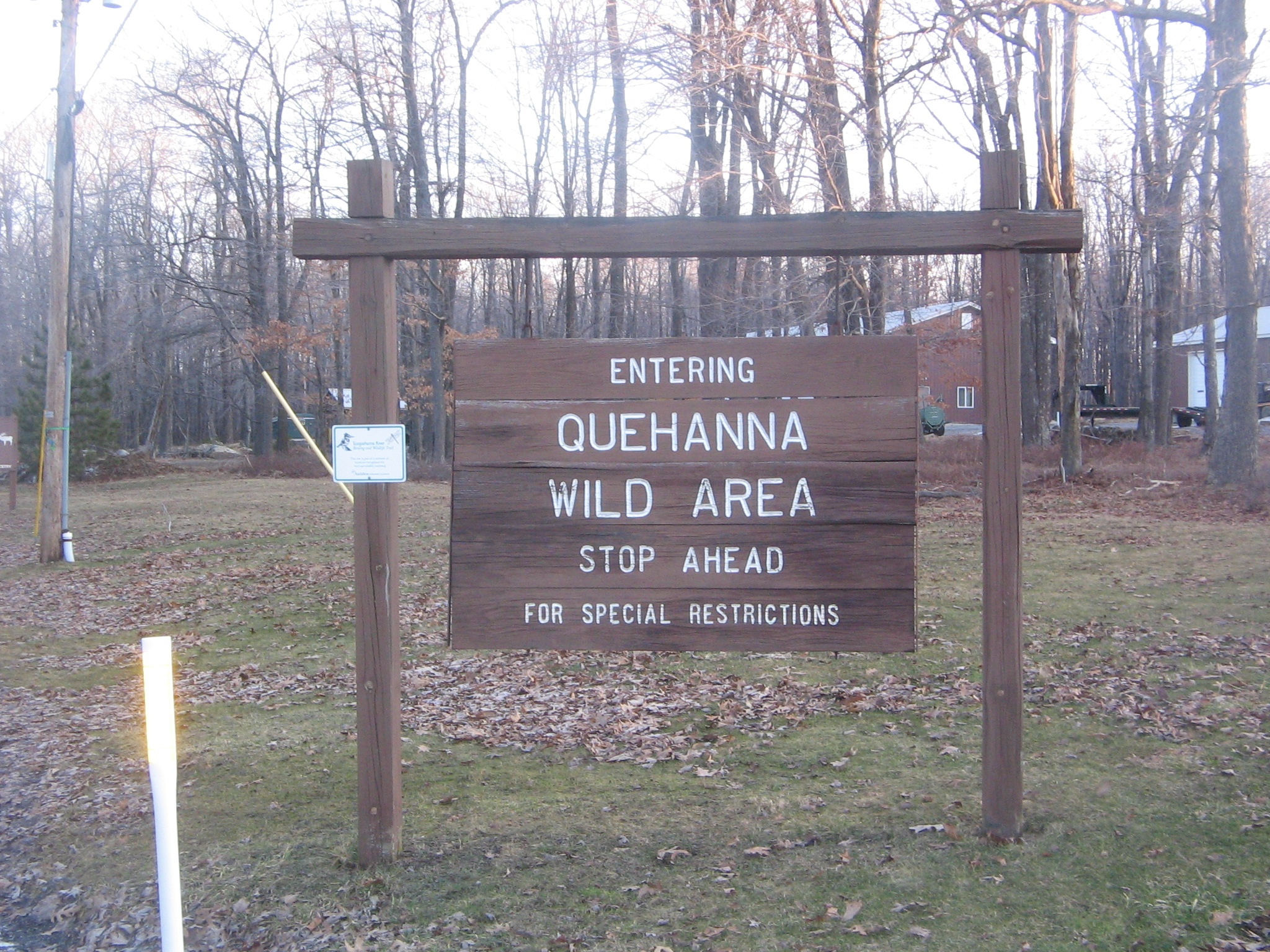 Entrance sign for Quehanna Wild Area and Important Bird Area, at Piper, Clearfield County, Pennsylvania, USA